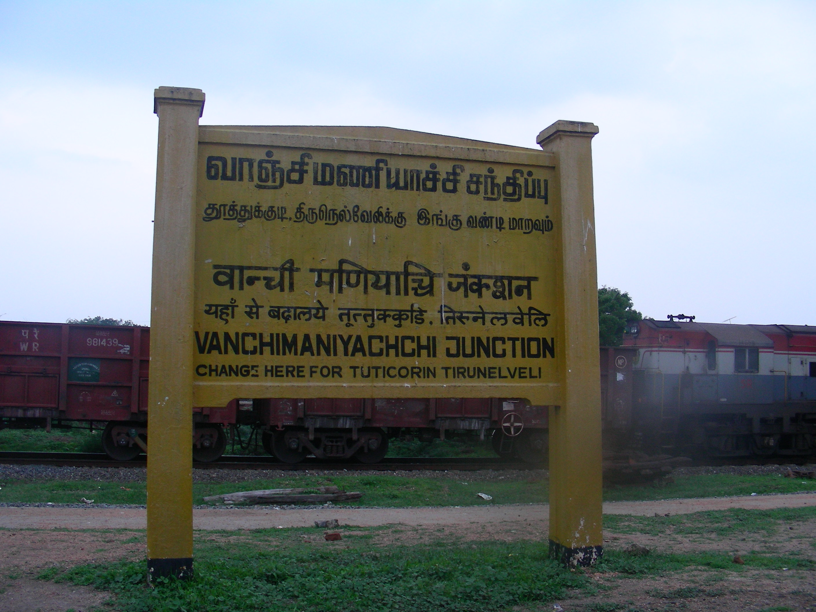 Photo of name board at Maniyachi Railway Station in Tamil Nadu, India. It shows the now-renamed Vanchi Maniyachi Railway Station in honour of Vanchinathan, an Indian freedom fighter. A goods train is seen in the backdrop.